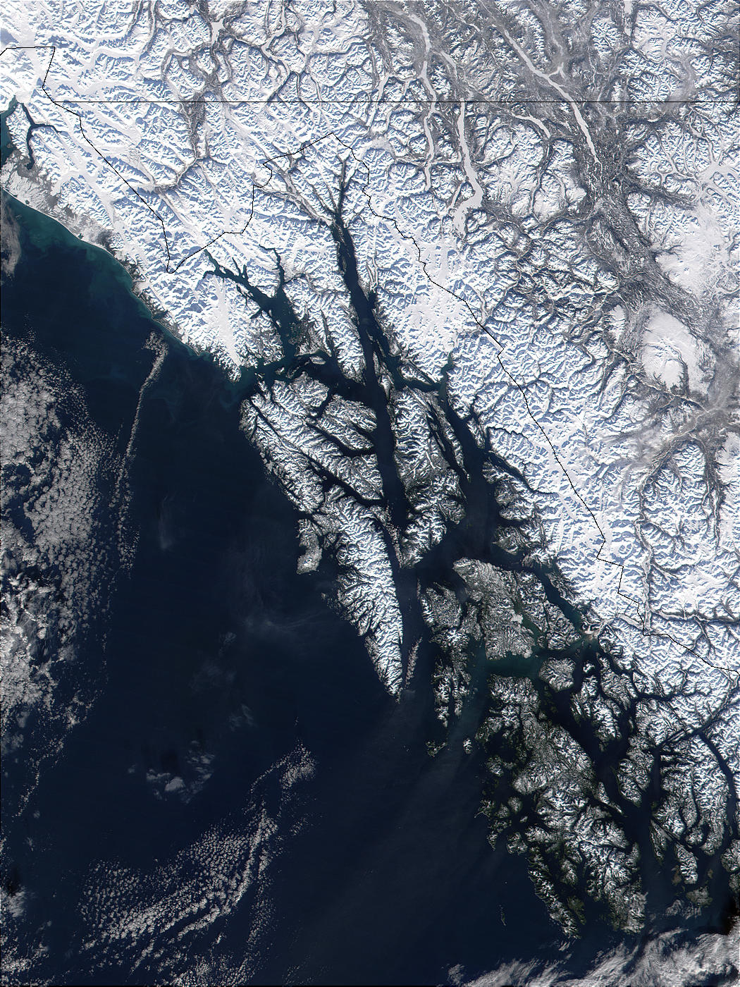 West of British Columbia, Canada, and south of the Yukon Territory, the southeastern coastline of Alaska trails off into the islands of the Alexander Archipelago. The area is rugged and contains many long, U-shaped, glaciated valleys, many of which terminate at tidewater. The Alexander Archipelago is home to Glacier Bay National Park. The large bay that has two forks on its northern end is Glacier Bay itself. The eastern fork is Muir inlet, into which runs the Muir glacier, named for the famous Scottish-born naturalist John Muir. Glacier Bay opens up into the Icy Strait. The large, solid white area to the west is Brady Icefield, which terminates at the southern end in Brady's Glacier.